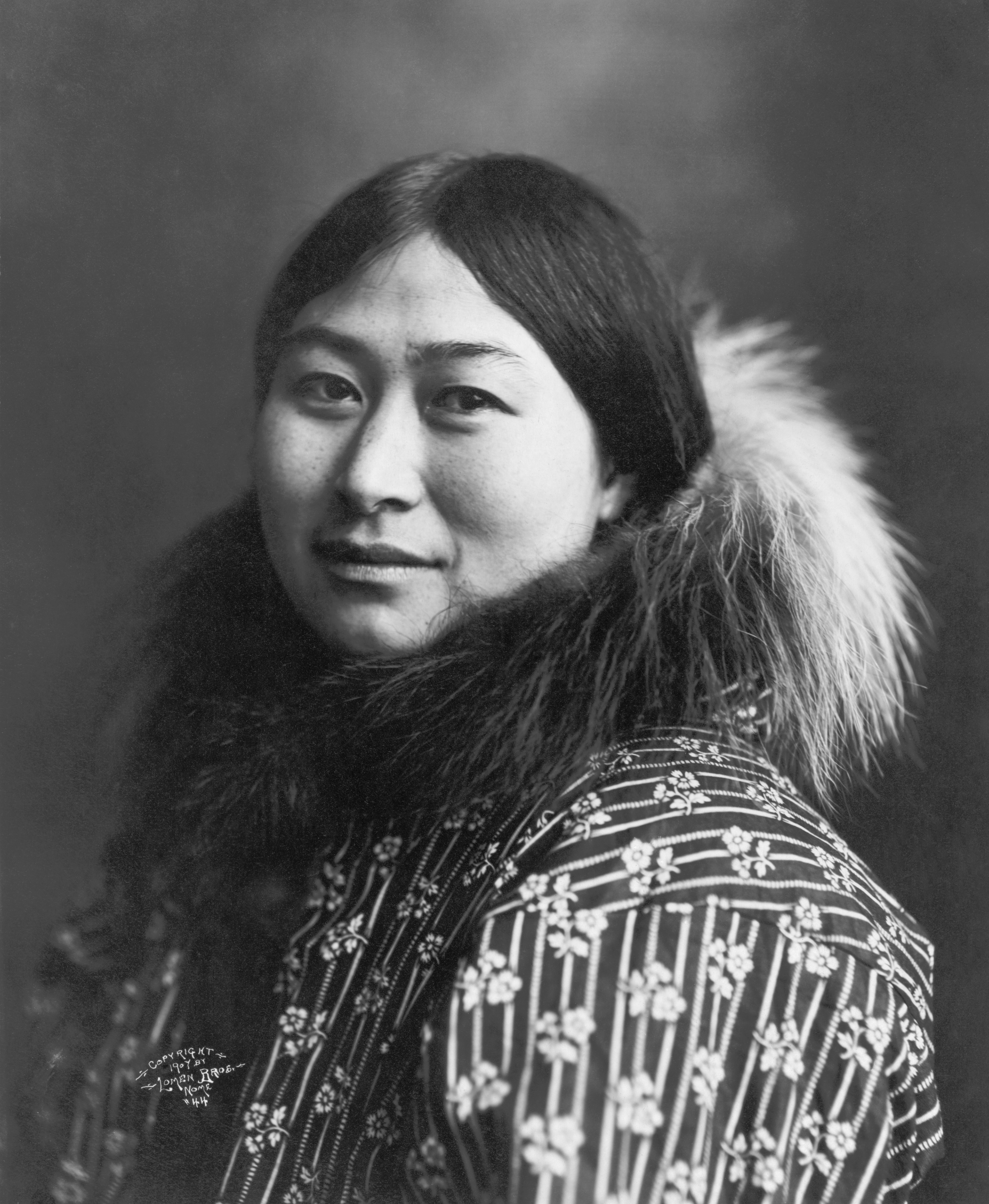 Photograph of Nowadluk/Nowadlook (Nora) Ootenna wearing a coat with a fur collar. Ootenna was an Inupiat woman who was a popular subject for Alaskan photographers around the time - [1] [2] [3] [4] [5] [6] [7]. She was has been mentioned as the daughter of James Keok[8] (.doc) (though their recorded birth dates makes this unlikely [9]) and she was married to George Ootenna[10] who were natives of Cape Prince of Wales[11] and worked as reindeer herders[12] (a business in which Lomen Bros was the main investor in Alaska)[13]. The Glenbow archive places most of the photos of her there.[14] Nora was born in 1885 and as of the 1910 Census she lived in Port Clarence (essentially Cape Prince of Wales).[15]